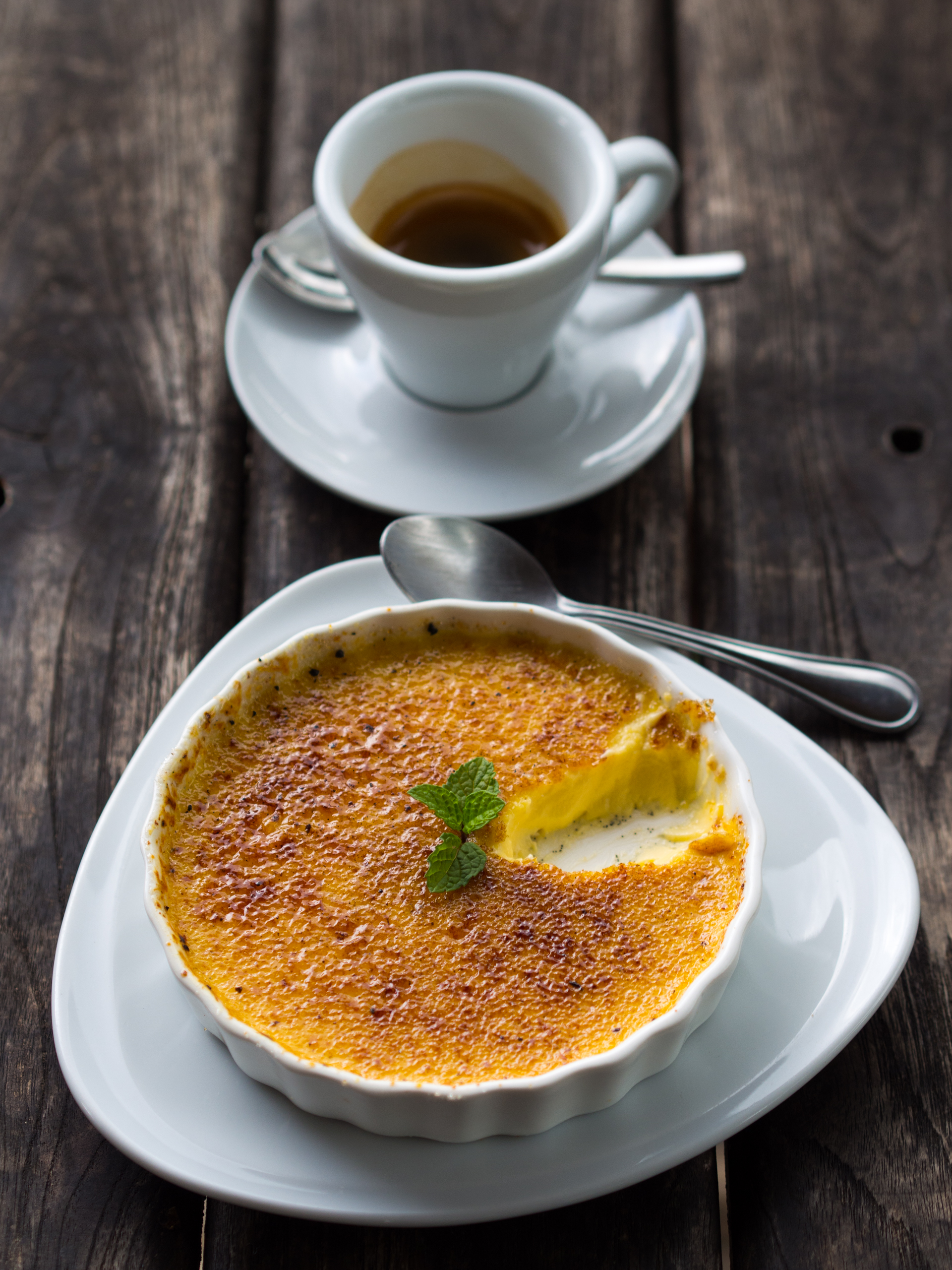 A Crème brûlée in the Thai-Yunnanese village of Doi Mae Salong (also known as Santhikiri) in the mountains of Chiang Rai Province, Northern Thailand.